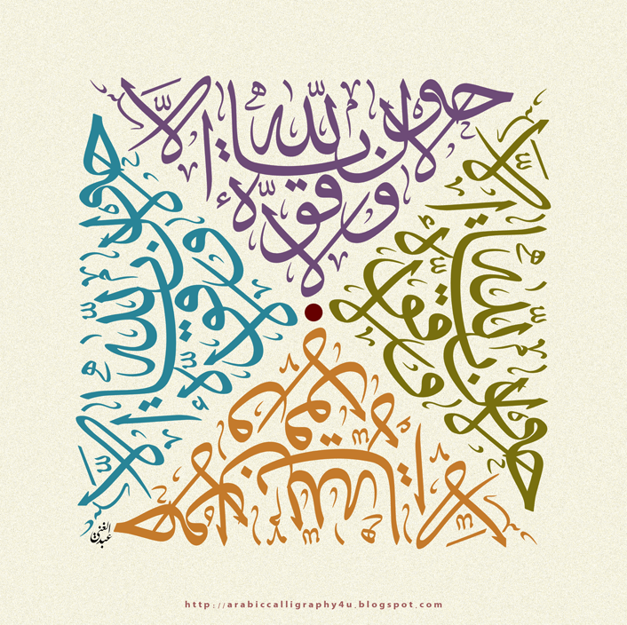 Hawqala in Thuluth script four triangle-square shaped.